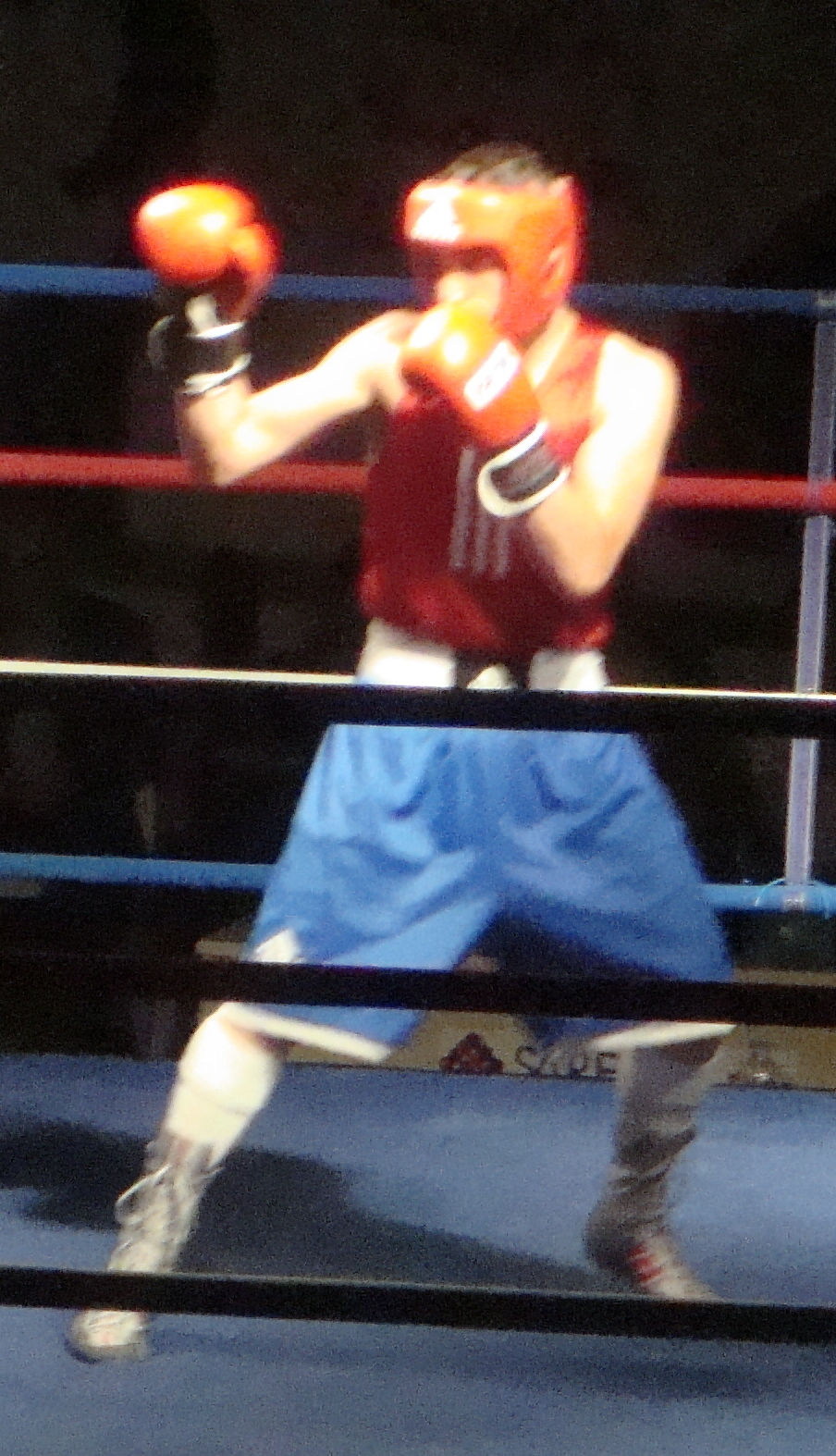 Kotsifas Thanasis (EAP- red fanela) - Rigakis Theodoros (PAO- blue fanela)